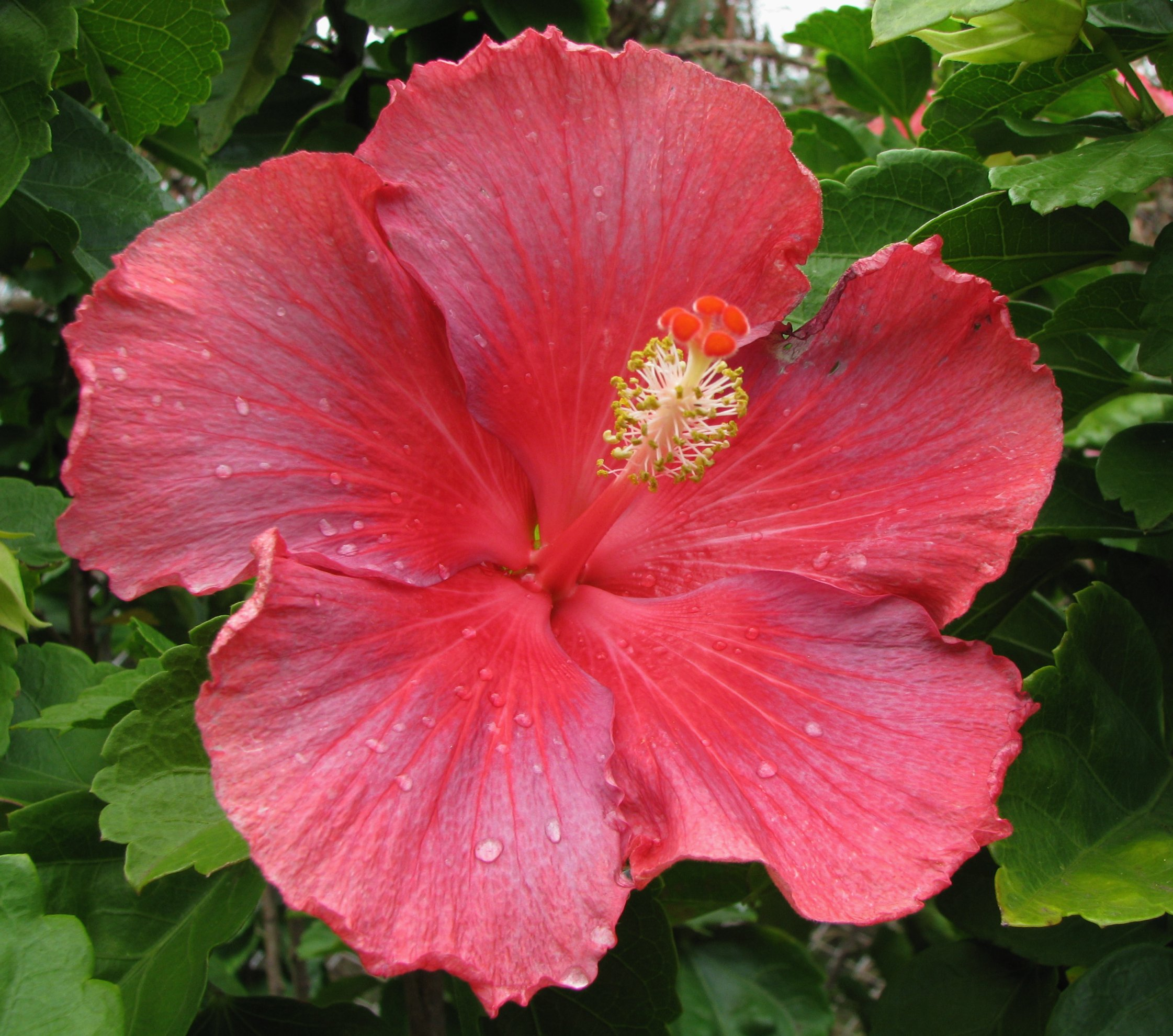 Malvaceae Hybrid registered by Jill Coryell